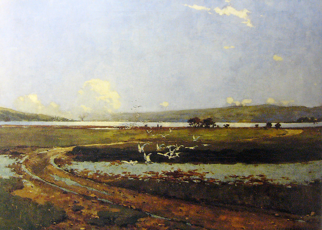 Painting by Glasgow Boy George Henry